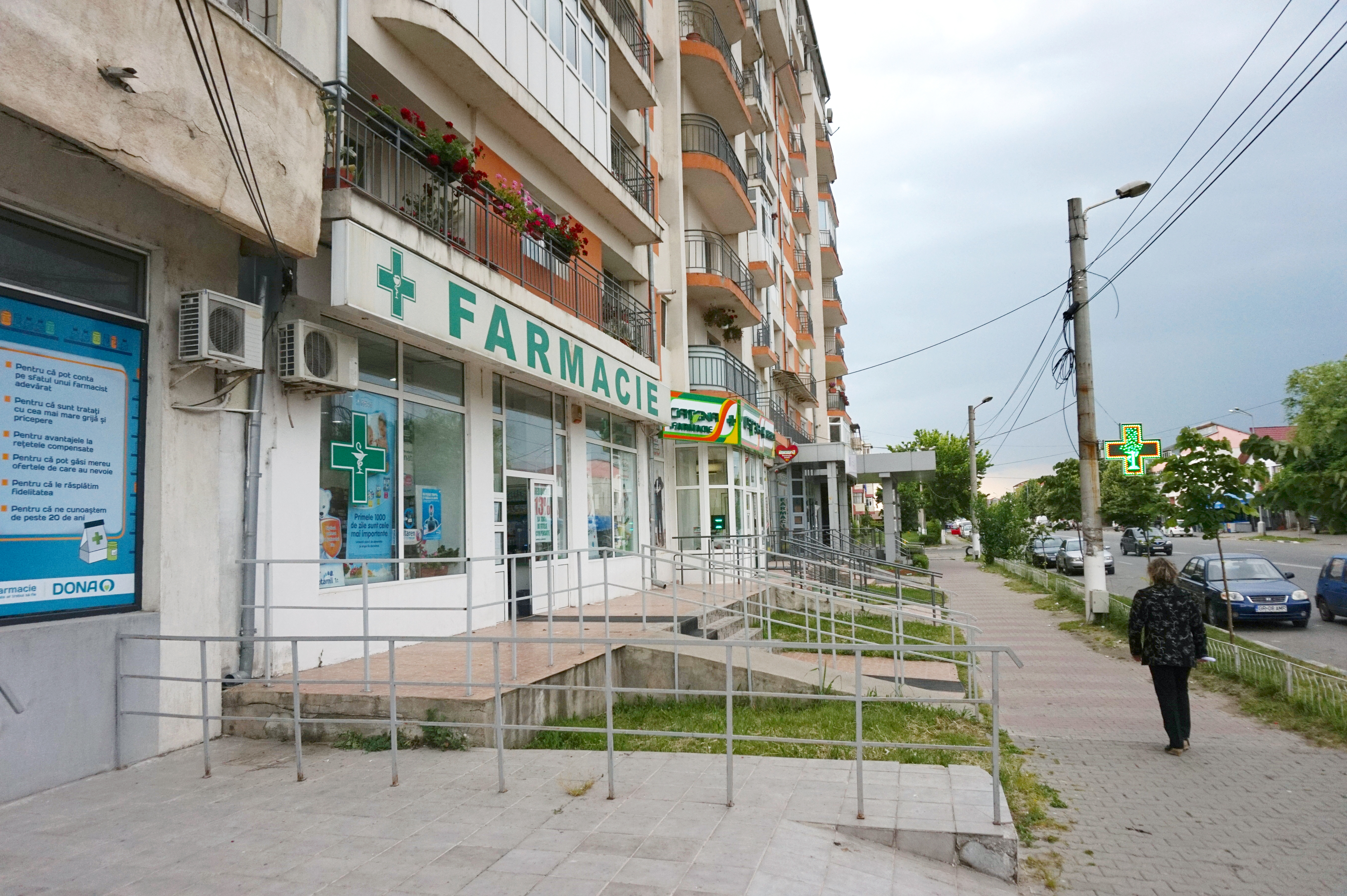 Pharmacy on the street Bulevardul Mihai Viteazul in Giurgiu. This photograph was taken with a Sony Alpha a5000.